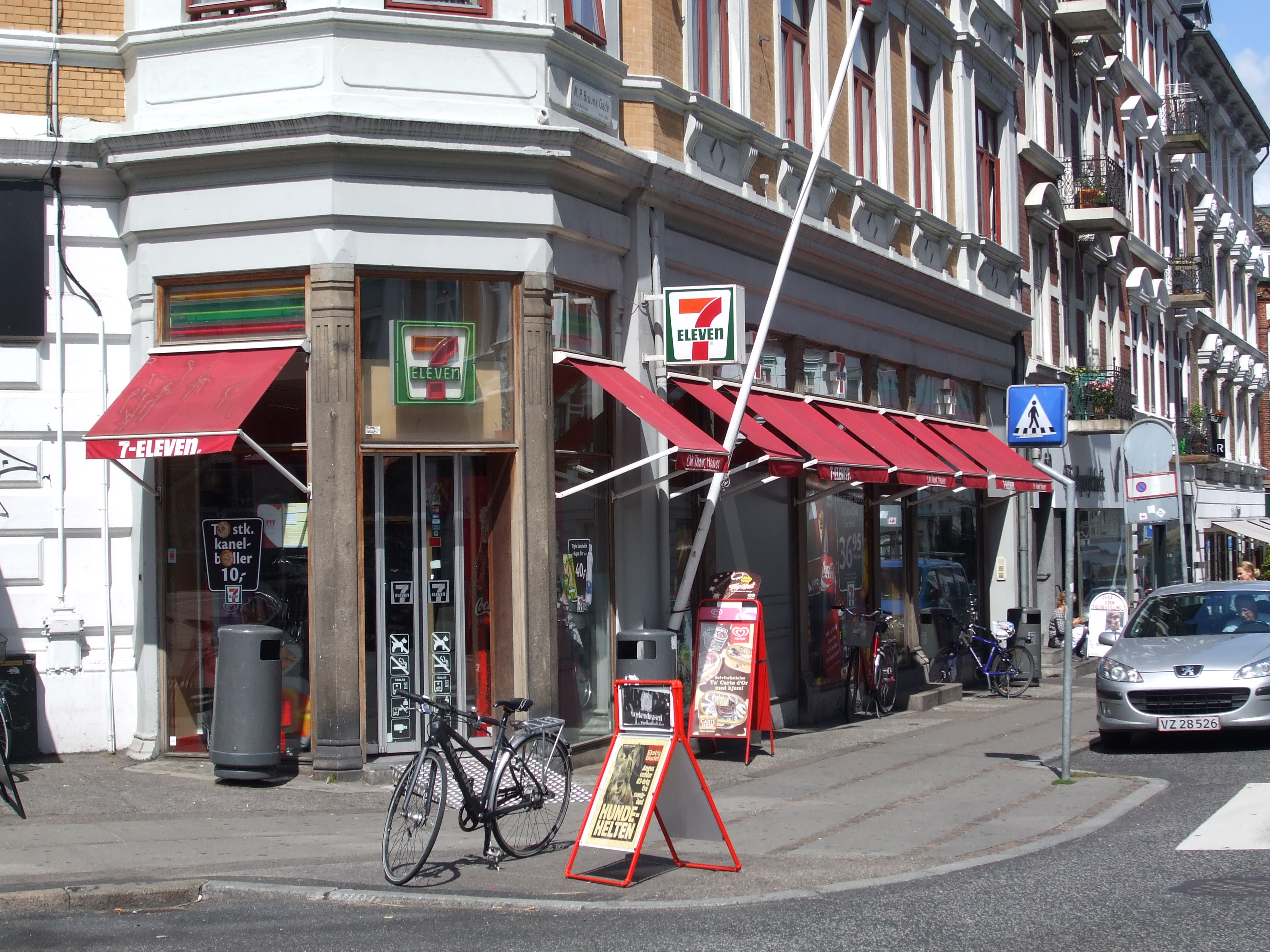 A 7-Eleven in Frederiksberg, Århus, Denmark